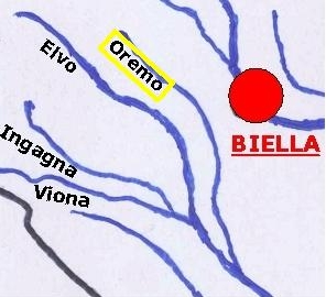 Oremo creek location (BI, Italy)